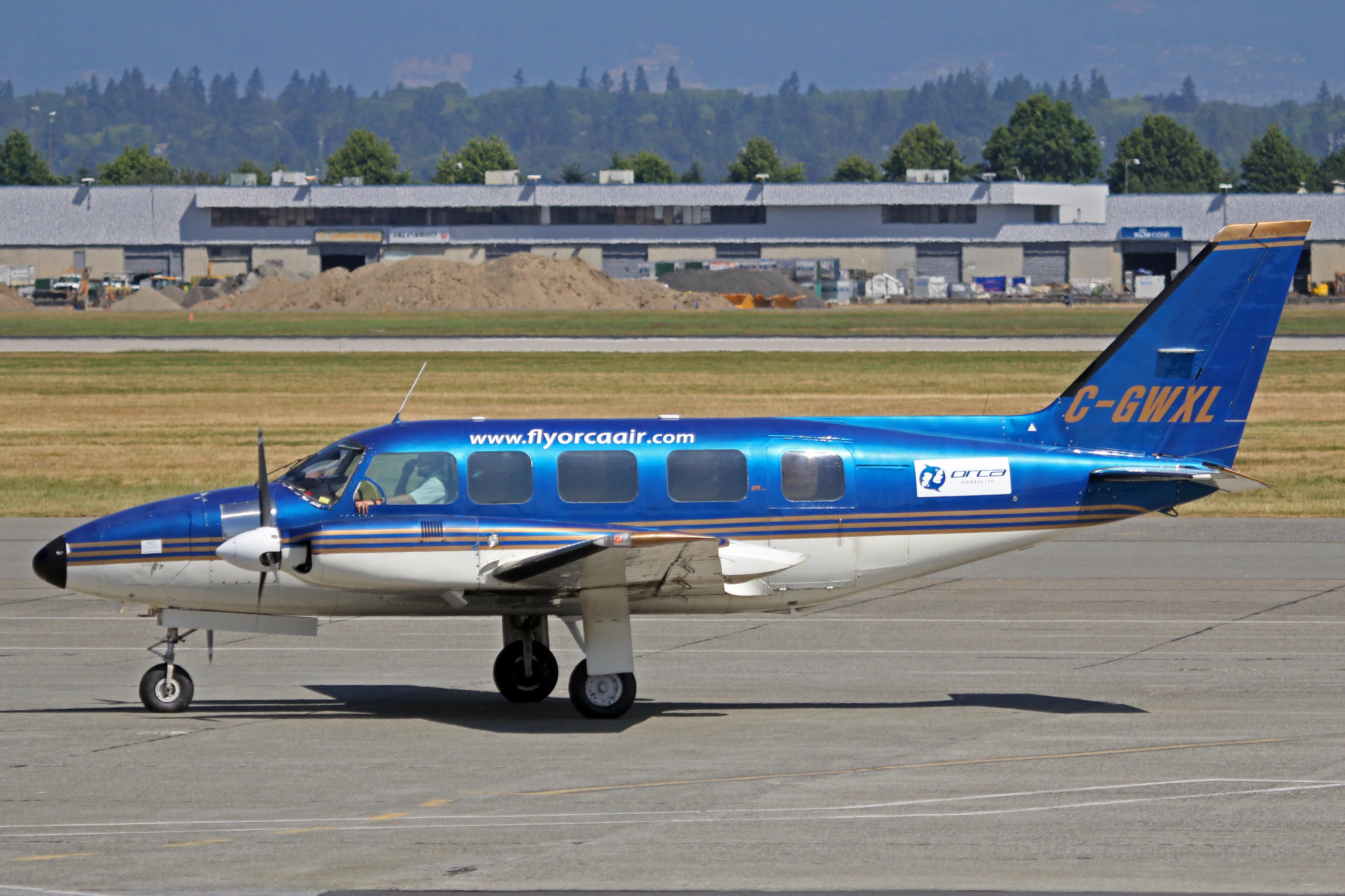 A picture of an airplane (name of it is on the file name).